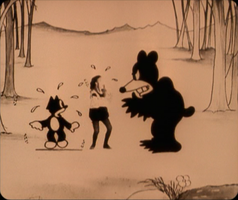 Screenshot from Alice Gets Stung. Disney film before September 6, 1926 have no copyright notice, as stated here.